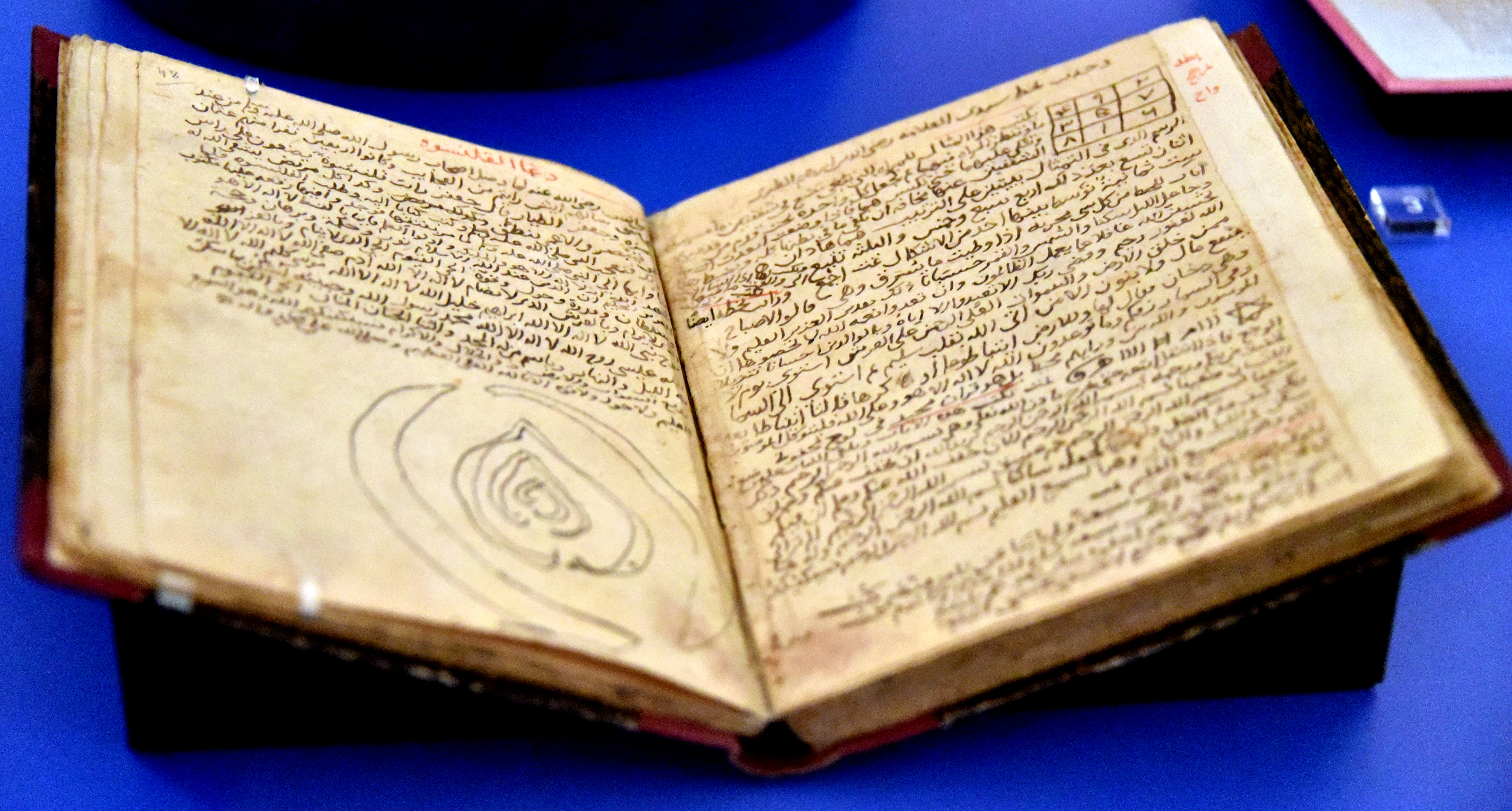 The Arabic story of "Companions of the Cave" (Qissat Ahl el-Kahaf),1494 CE, origin unknown. Written in Arabic language. It was displayed at the Neues Museum in Berlin, Germany, Exhibition of "Cinderella, Sindbad & Sinuhe, Arab-German Storytelling Traditions", April 18, 2019, to August 18, 2019. Berlin State Library, Prussian cultural heritage, Orient Department (Staatsbibliothek zu Berlin, Preußischer Kulturbesitz, Orientabteilung, Sprenger 1193).